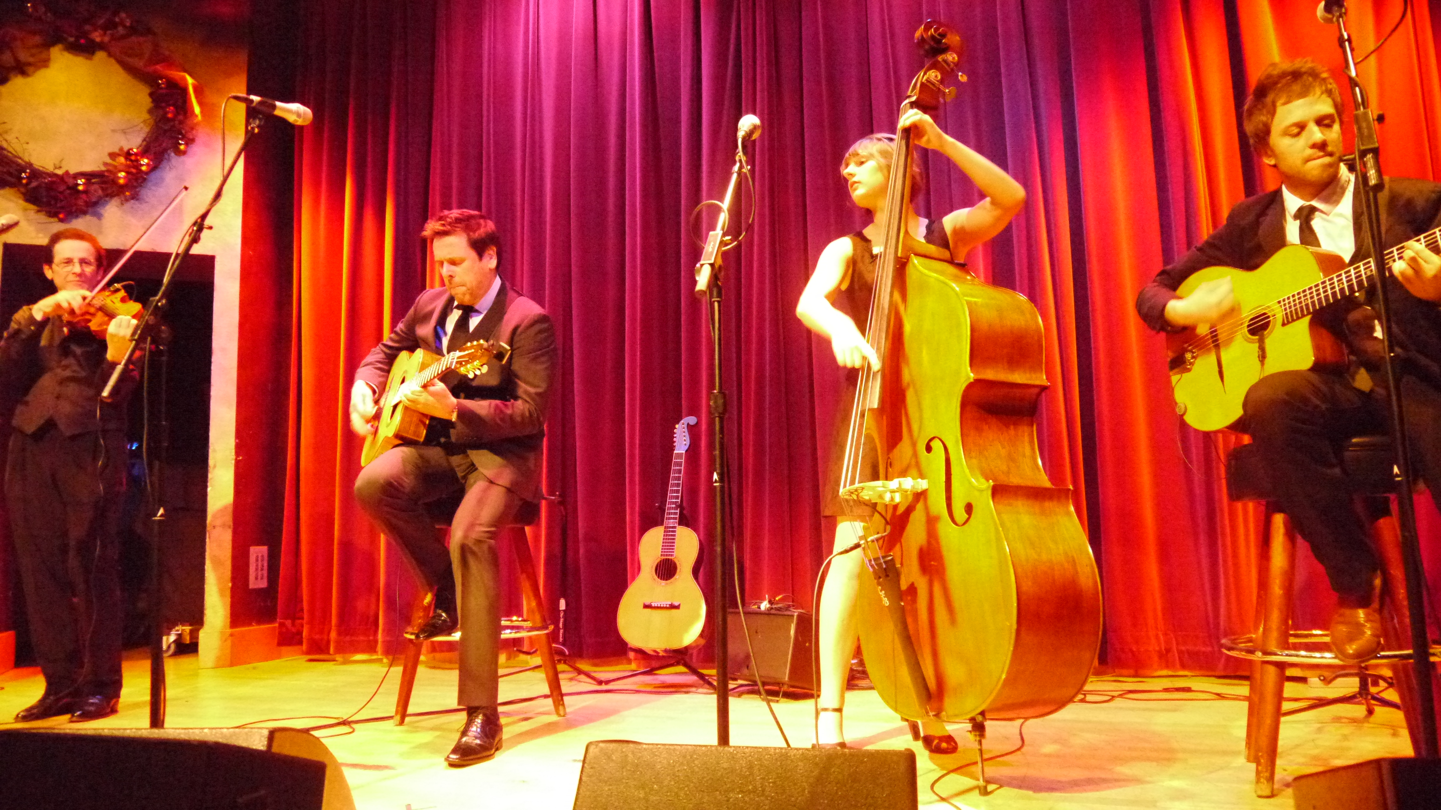 George Cole and his gypsy jazz/uptown swing group Eurocana perform a concert at Yoshi's jazz club on December 16, 2012. Pictured on stage (left to right) Nashville jazz violinist Stephan Dudash, George Cole, Kaeli Earle, and Parisian guitarist Mathias Minquet.